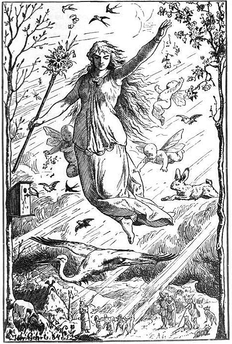 "Ostara" (1901) by Johannes Gehrts. The goddess Ēostre/*Ostara flies through the heavens surrounded by Roman-inspired putti, beams of light, and animals. Germanic peoples look up at the goddess from the realm below.